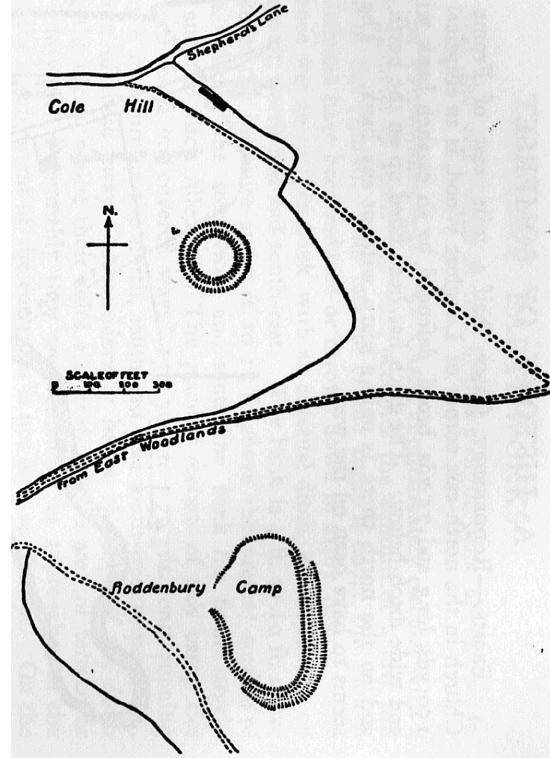 Map of earthworks at Roddenbury Camp, Somerset, England.